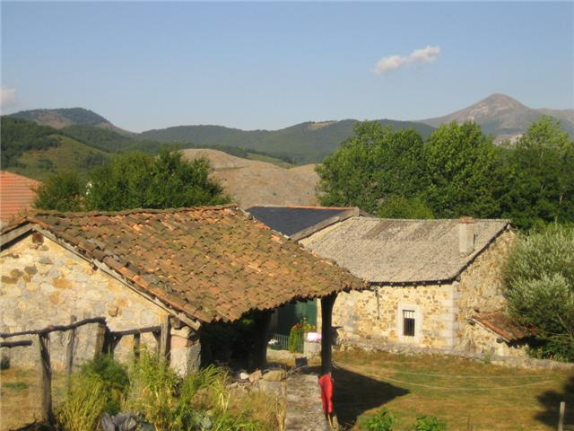 Liegos, una calle.